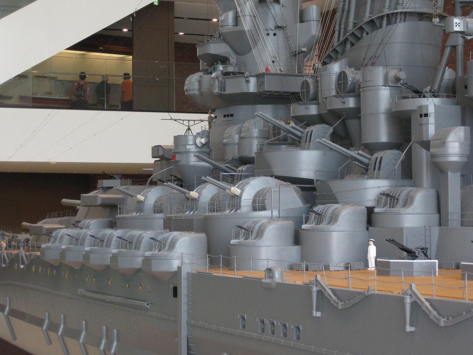 Part of the 1:10 scale model of the Japanese battleship Yamato at the Yamato Museum in Kure, Japan